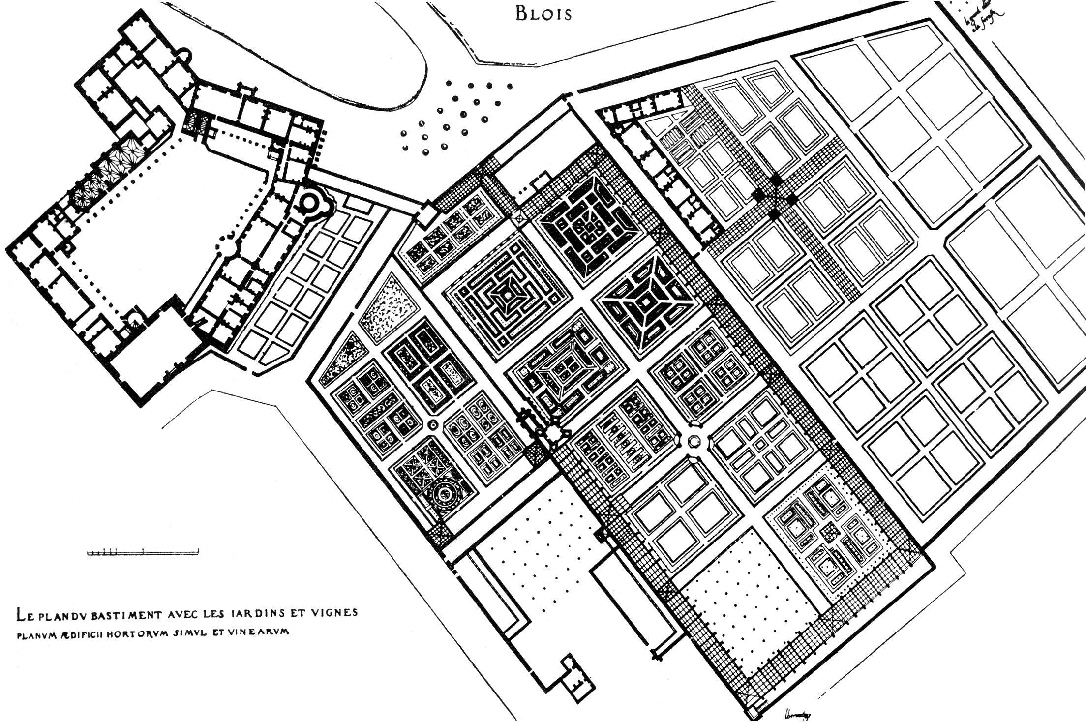 Floor plan of the Château de Blois with its gardens